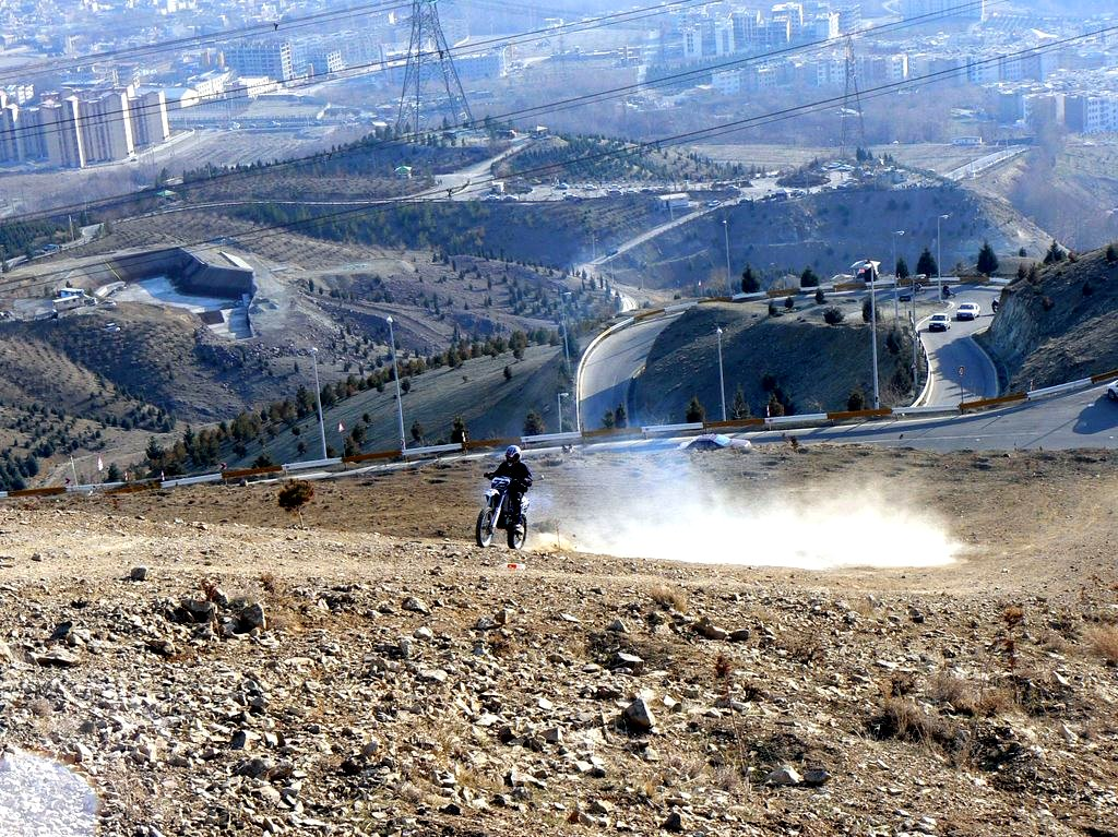 Kouhsaar Park, Shahran, Tehran